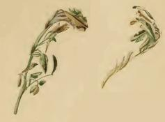 Stainton’s Natural History of the Tineina (1855–1873): Athrips tetrapunctella sprigs of Medicago sativa eaten by larva